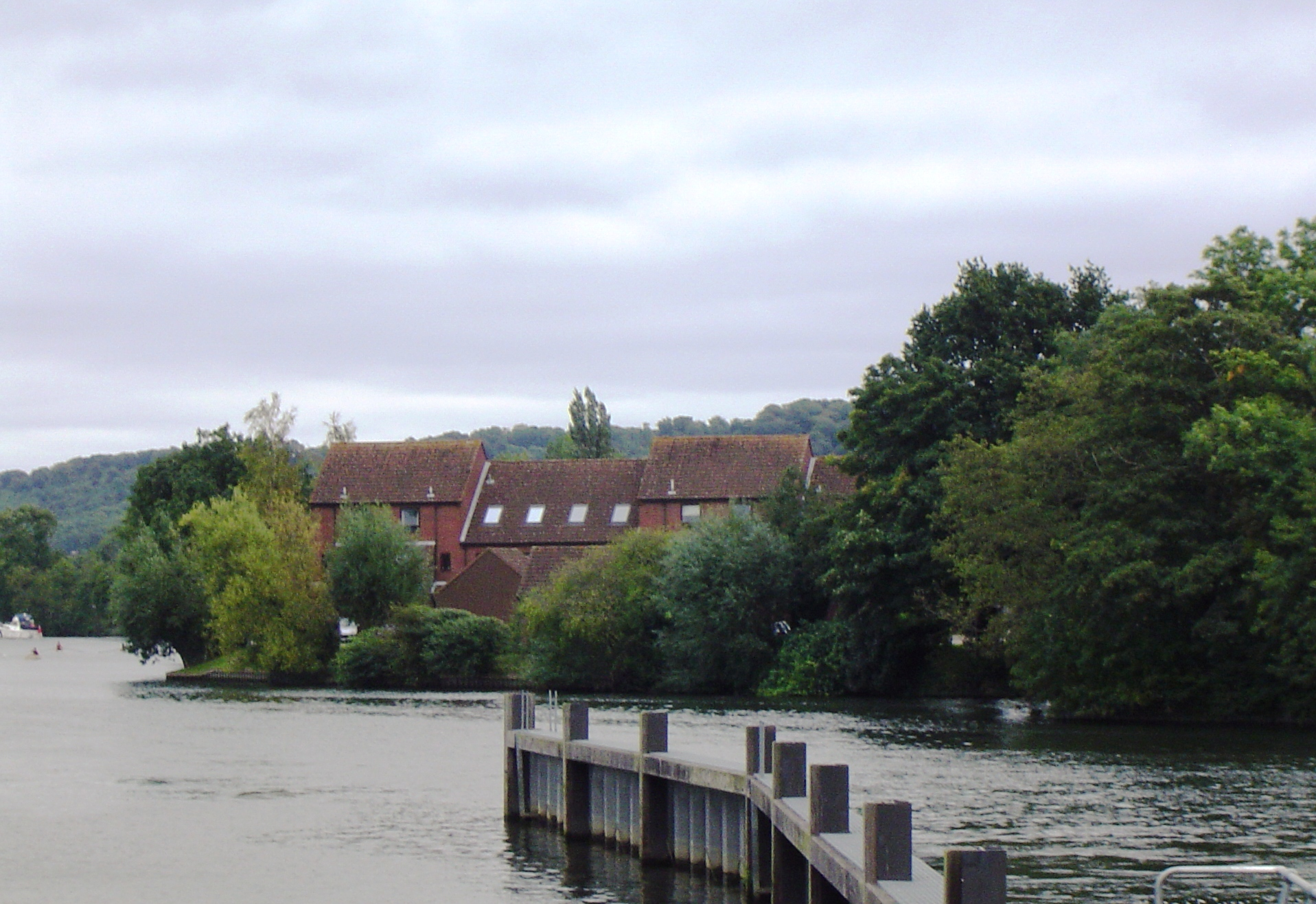 Temple Mill Island near Hurley, River Thames